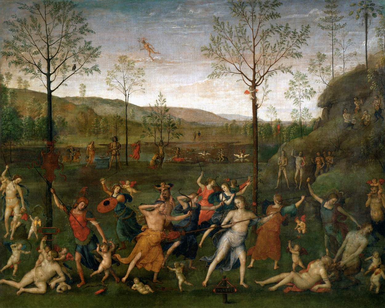 Combat of Love and Chastity Pietro Perugino Panel, 160 x 191 cm Paris, Musee du Louvre